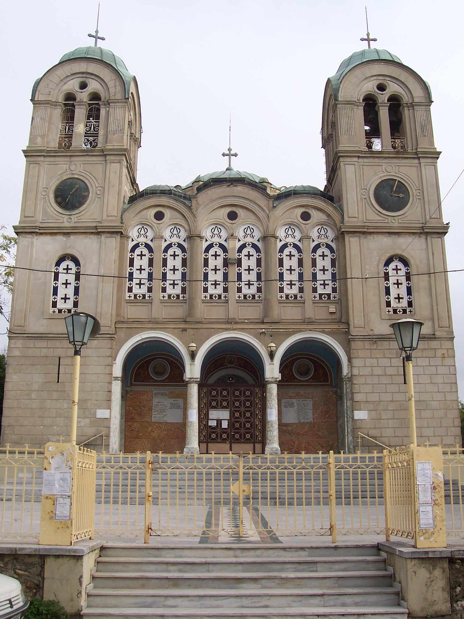 Pantokrator church, Patras, Greece (front side). Geographic coordinates: lat=38.24322727695982 lon=21.740000172250767